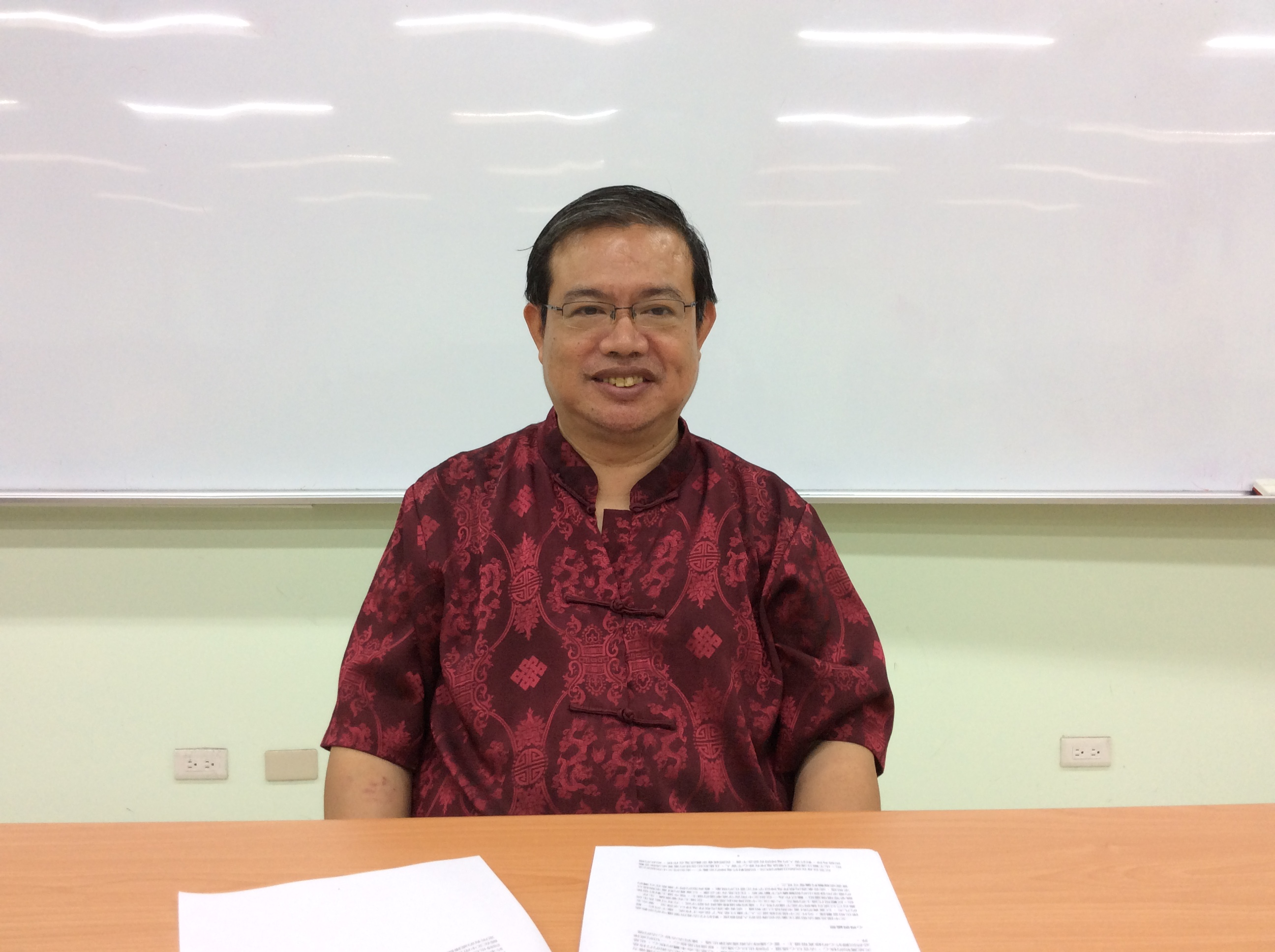 鄭志明 輔仁大學宗教系